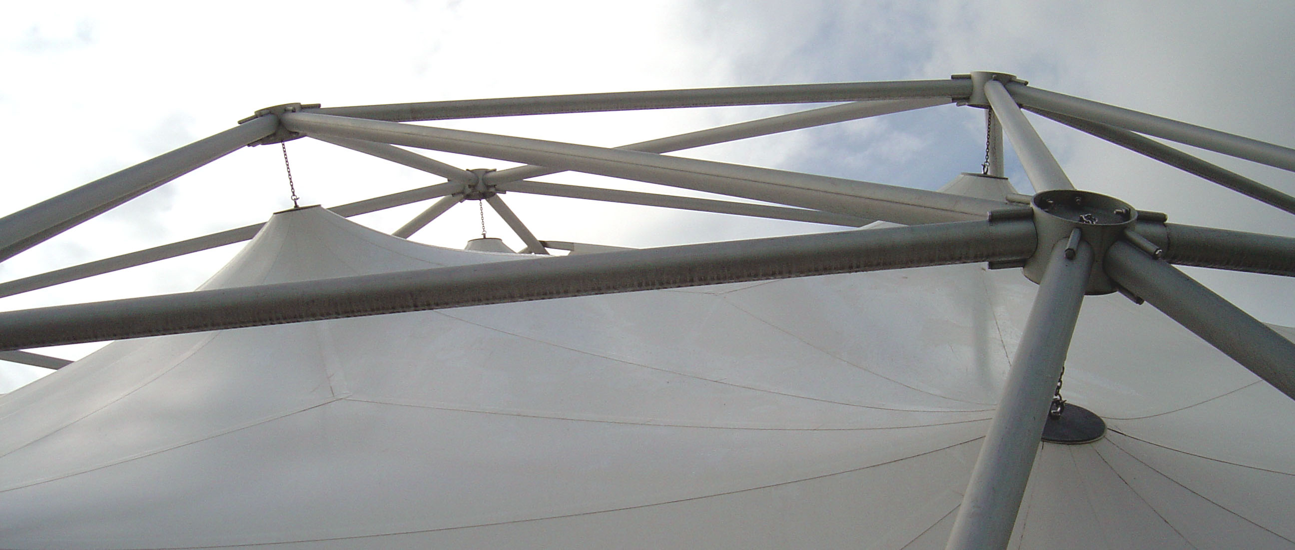 Construction details of a tent-type geodesic dome by Buckminster Fuller, Vitra company premises, Weil am Rhein, Germany.